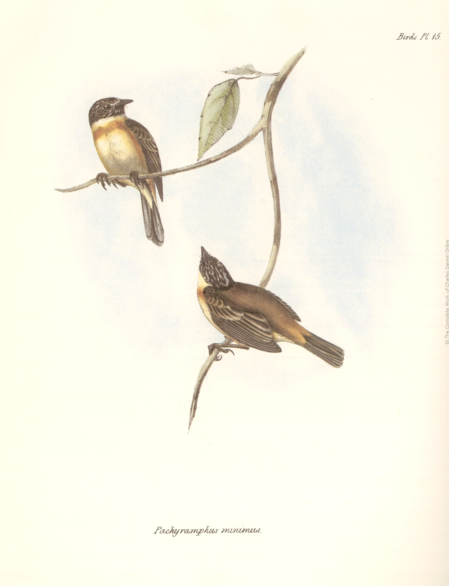 Pachyramphus minimus (= Polystictus pectoralis)